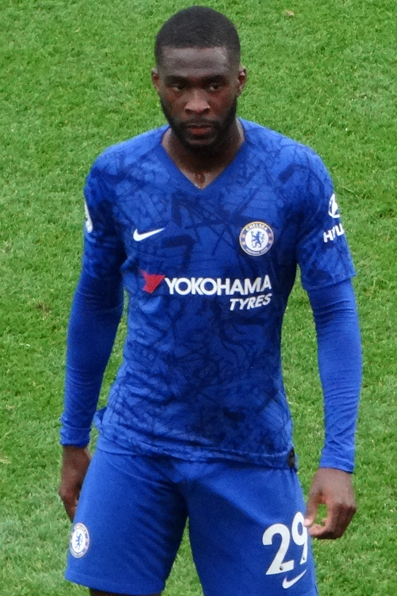 Fikayo Tomori playing against Liverpool in September 2019